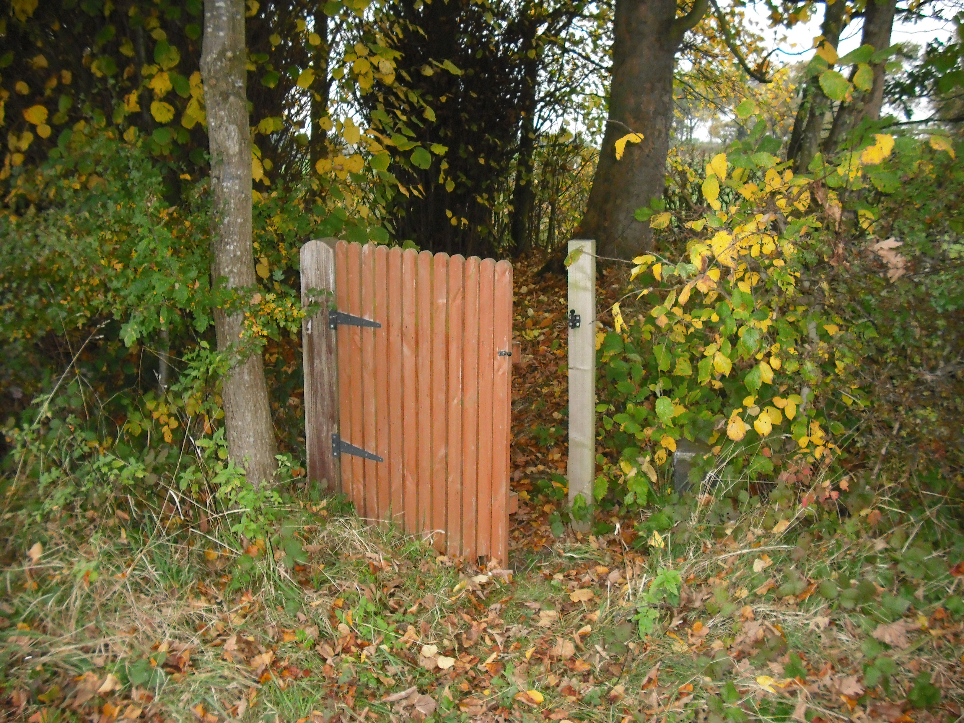 Quaker's Wood, Freckleton - entrance